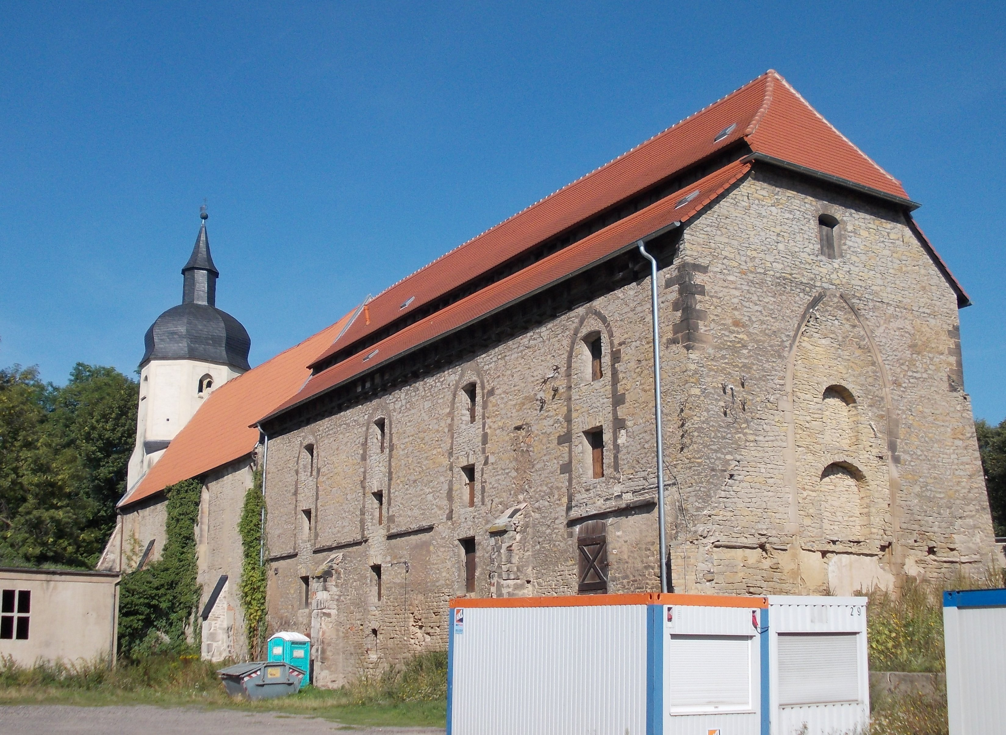 the church of a former Augustinian nunnery in Oberwiederstedt (Arnstein, district of Mansfeld-Südharz, Saxony-Anhalt)